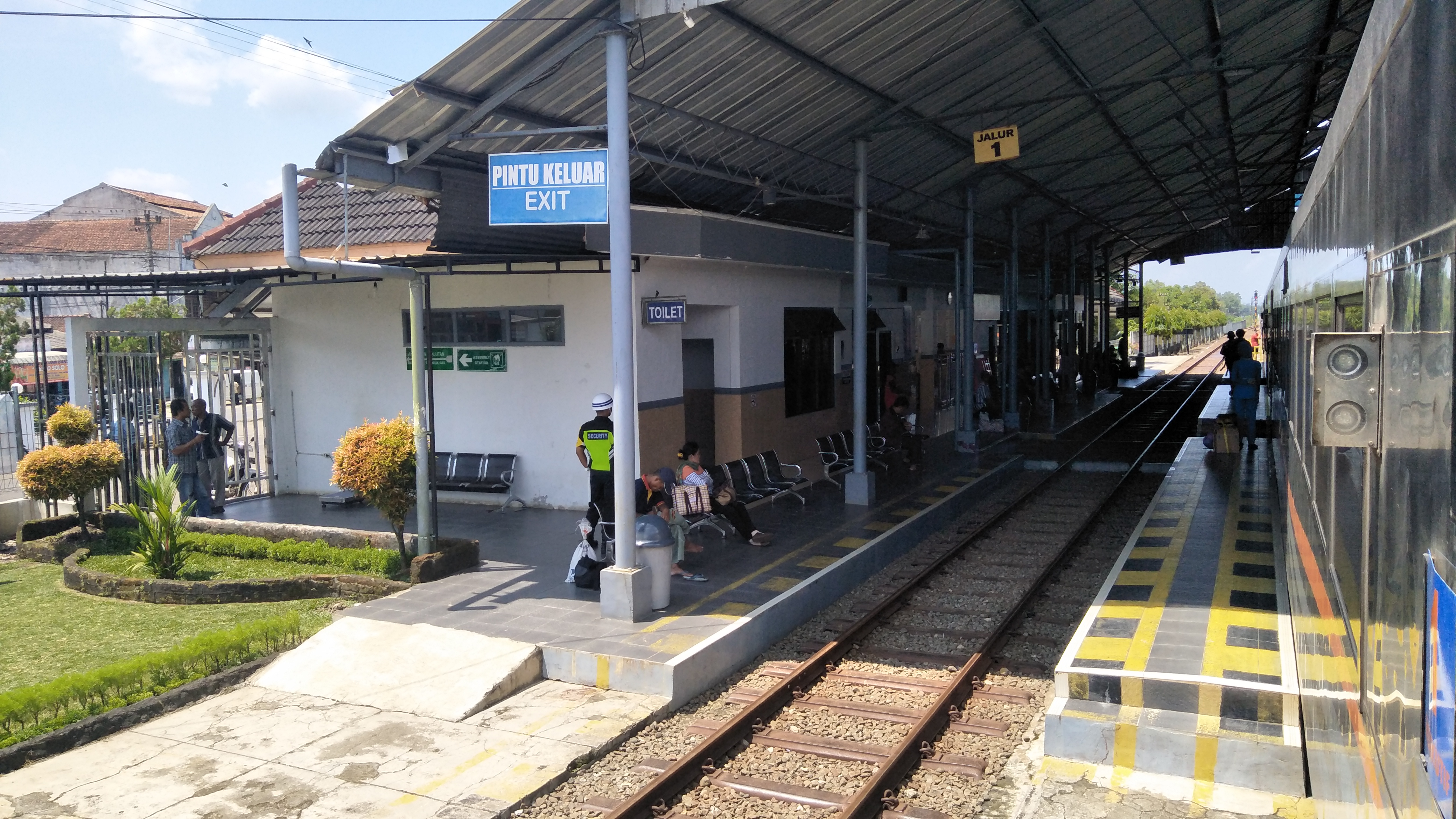 Inside of Sidareja railway station